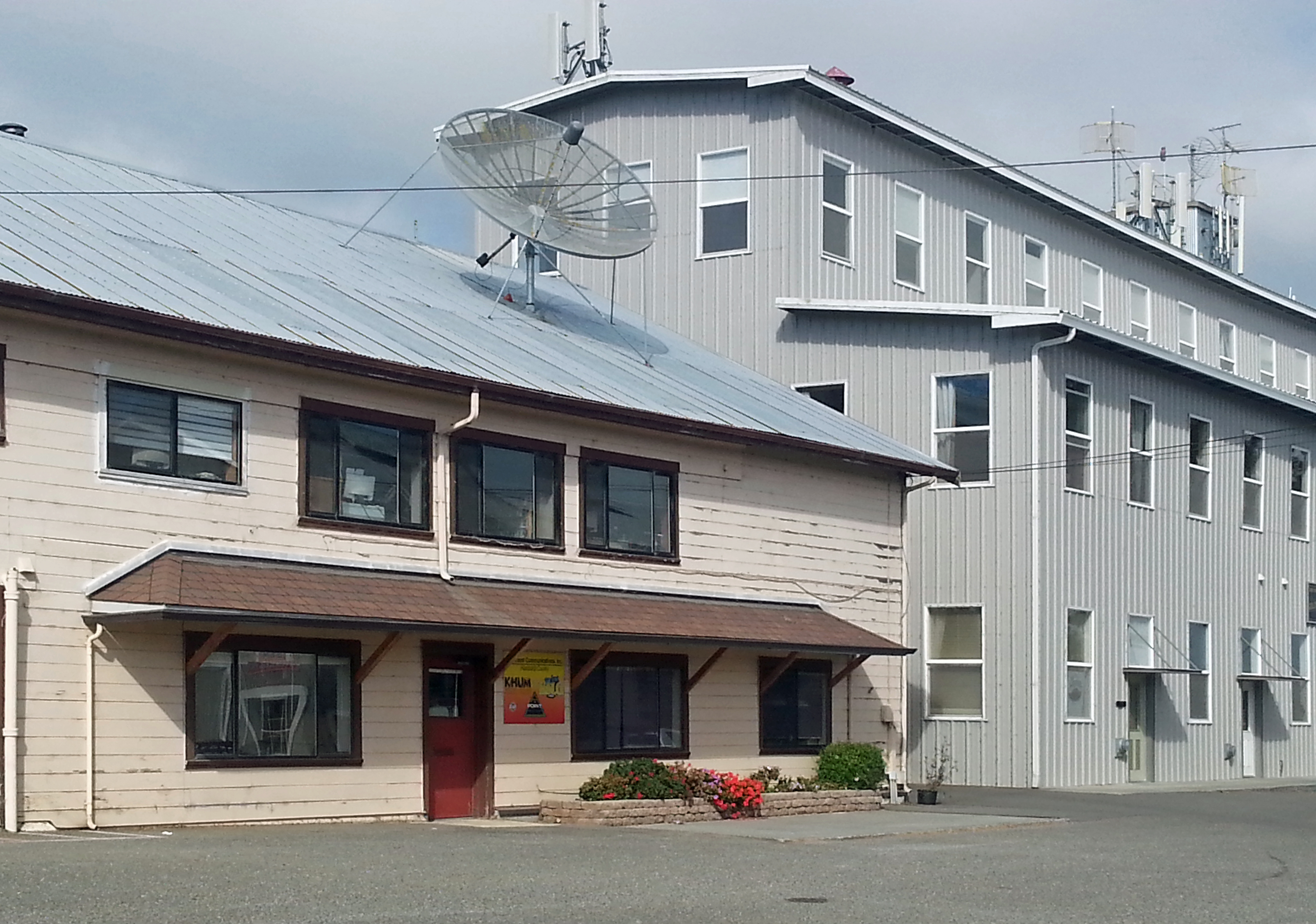 The studios and offices of KHUM radio, and Lost Coast Communications on Milton Street in Ferndale, California